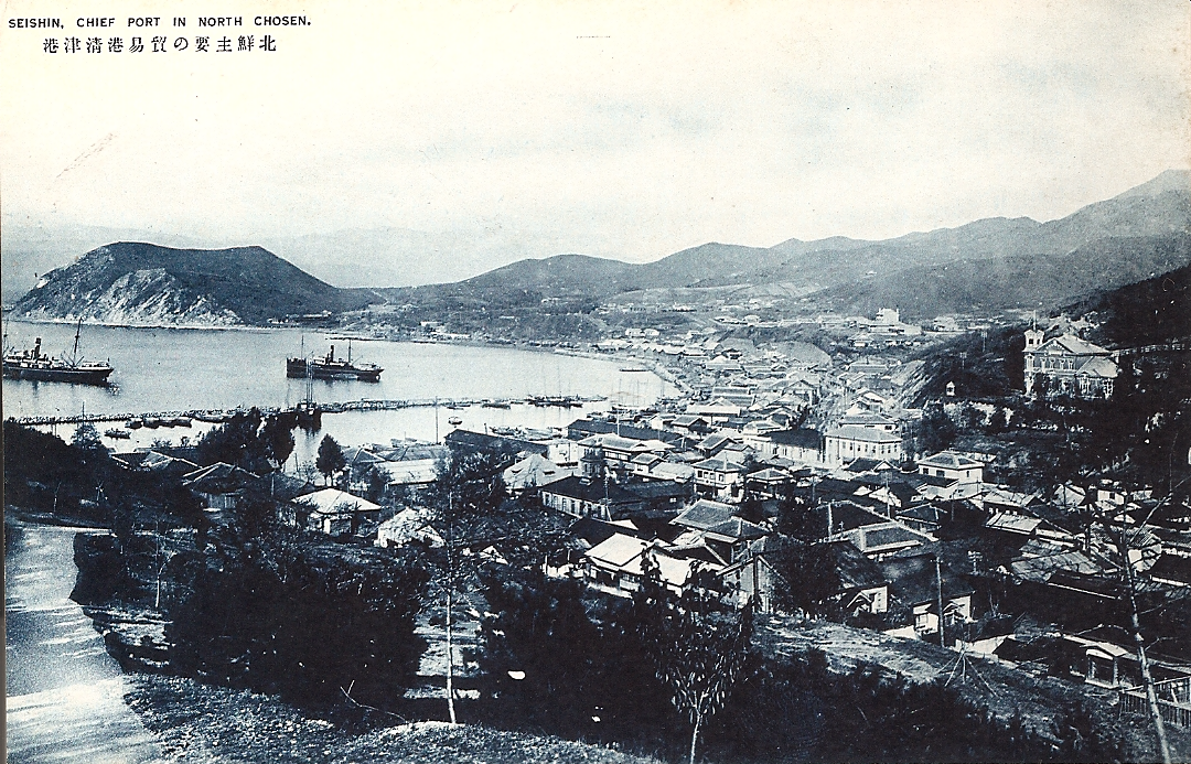 Seishin (Chongjin), chief port in north Chosen (Korea).